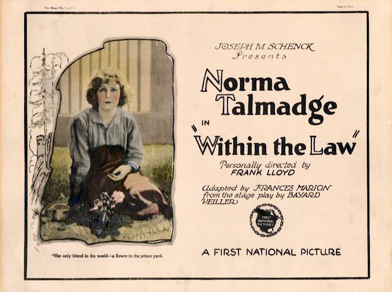 Lobby card for the 1923 film Within the Law. There are no copyright marks on the card. At top left is The Ullman Mfg Co NY-they printed the card. At top right is Made in USA.